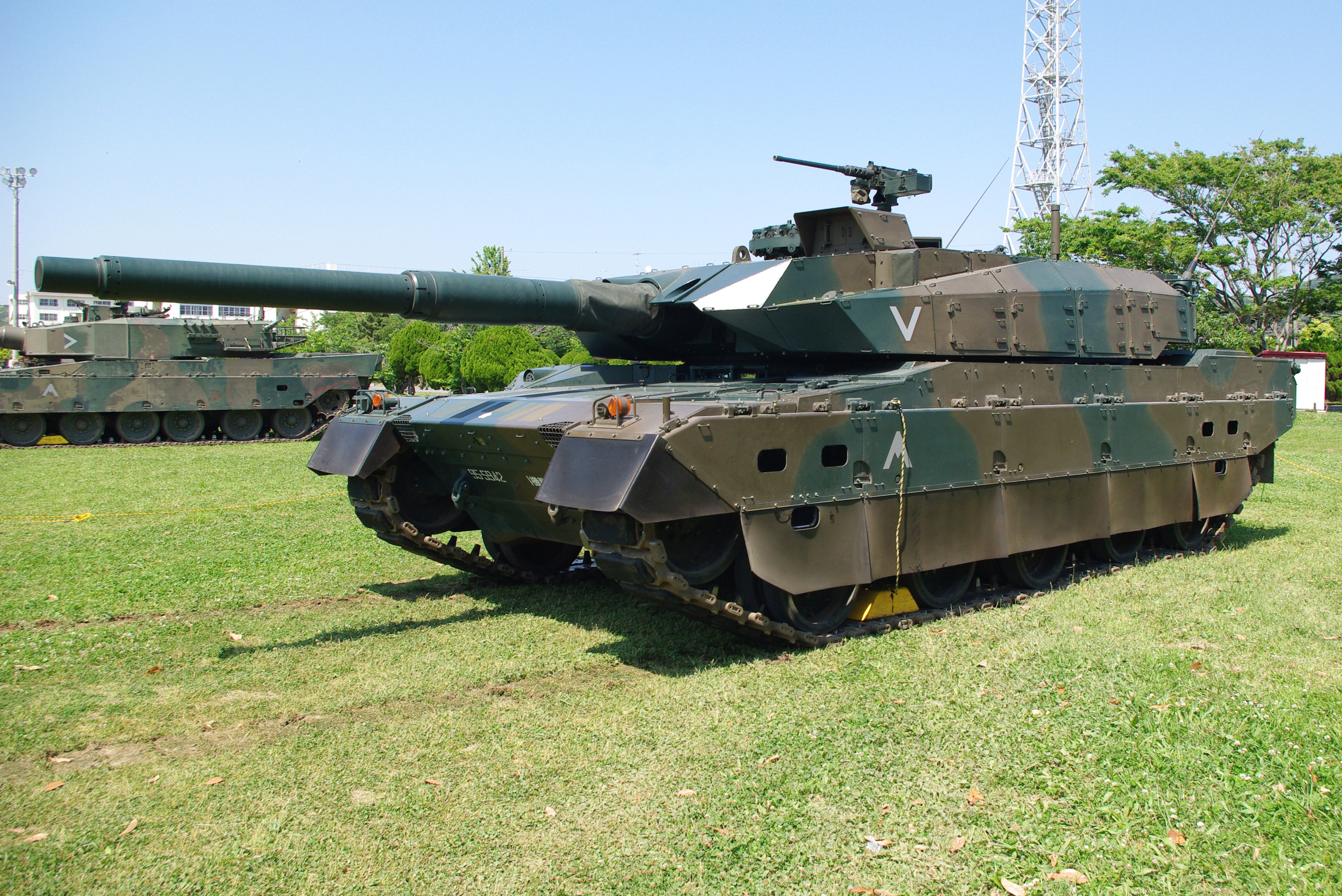 JGSDF Type10 Tank (production model),1st Armored Training Unit/Eastern Army Combined Brigade.Taken by Los688,in Camp Takeyama,Japan,at 27-May-2012.PD-self ja:10式戦車（量産型）2012年05月27日、東部方面混成団第1機甲教育隊 武山駐屯地で撮影。